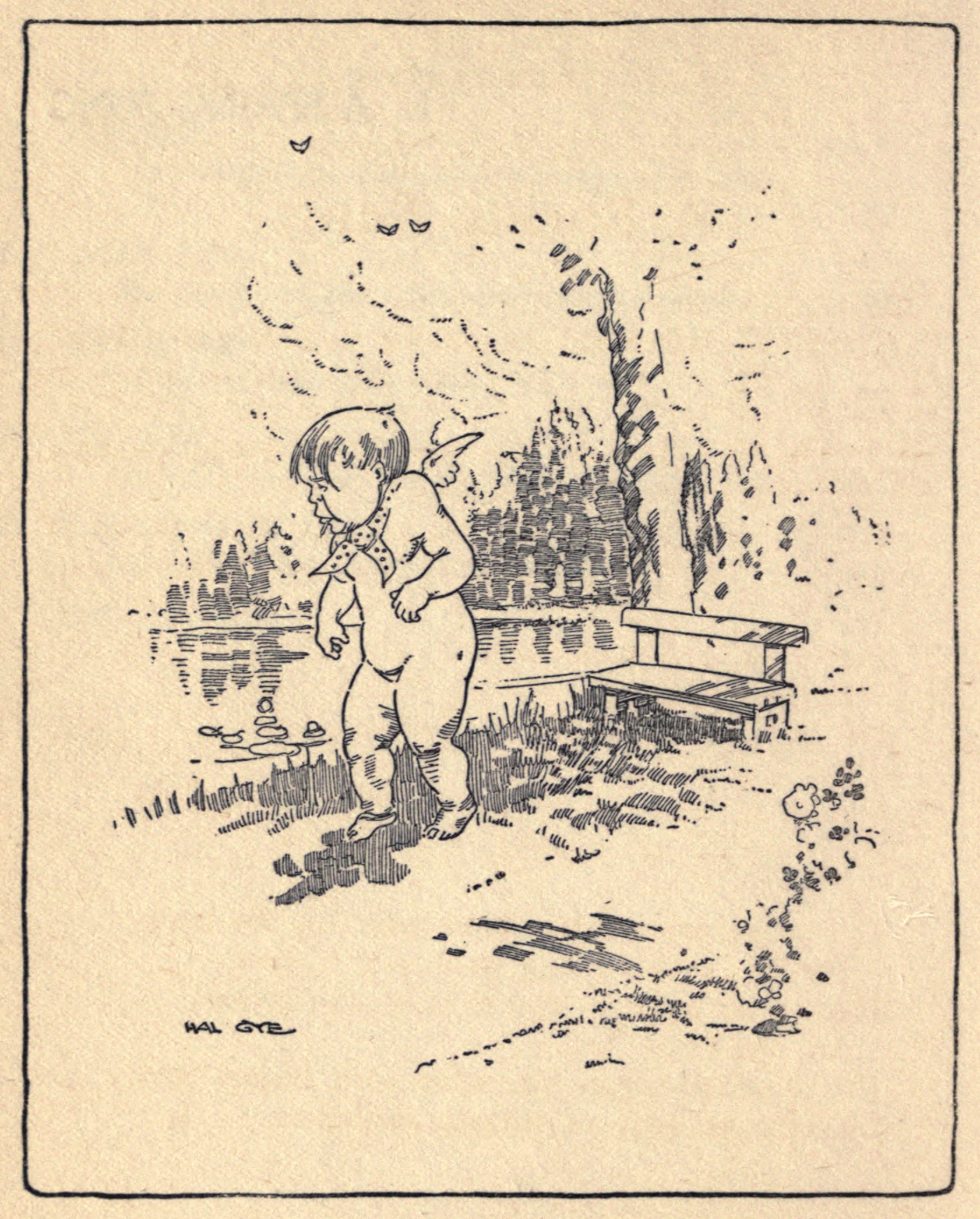 Derived from page scans of an original copy, second edition (1917), of The Songs of a Sentimental Bloke, a work of Australian literature.